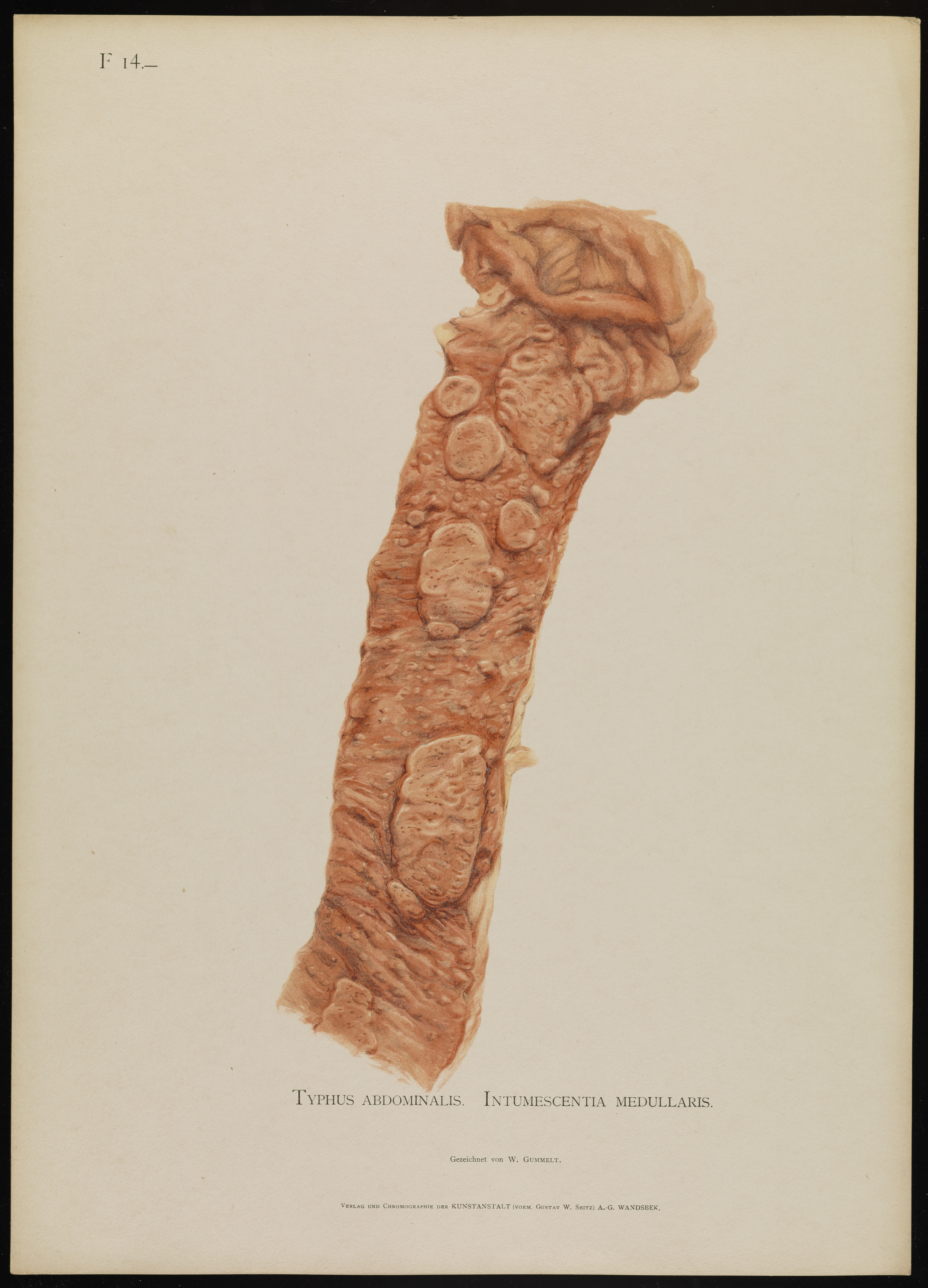 F14. Typhus abdominalis, intumescentia medullaris. Typhoid in the early stage, intestines of male patient, 24 years. General Collections Keywords: Anatomy; Pathology